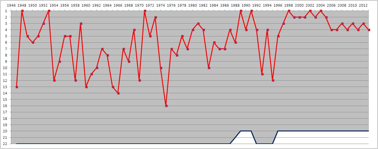 Arsenal F.C. league positions, 1947-2013.